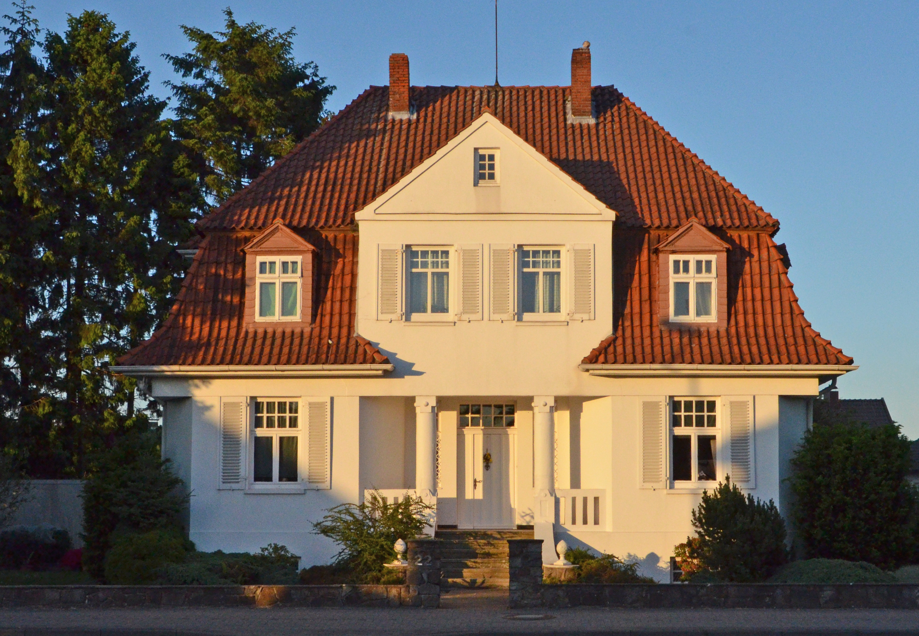 Cultural Heritage Monuments in Twistringen Villa